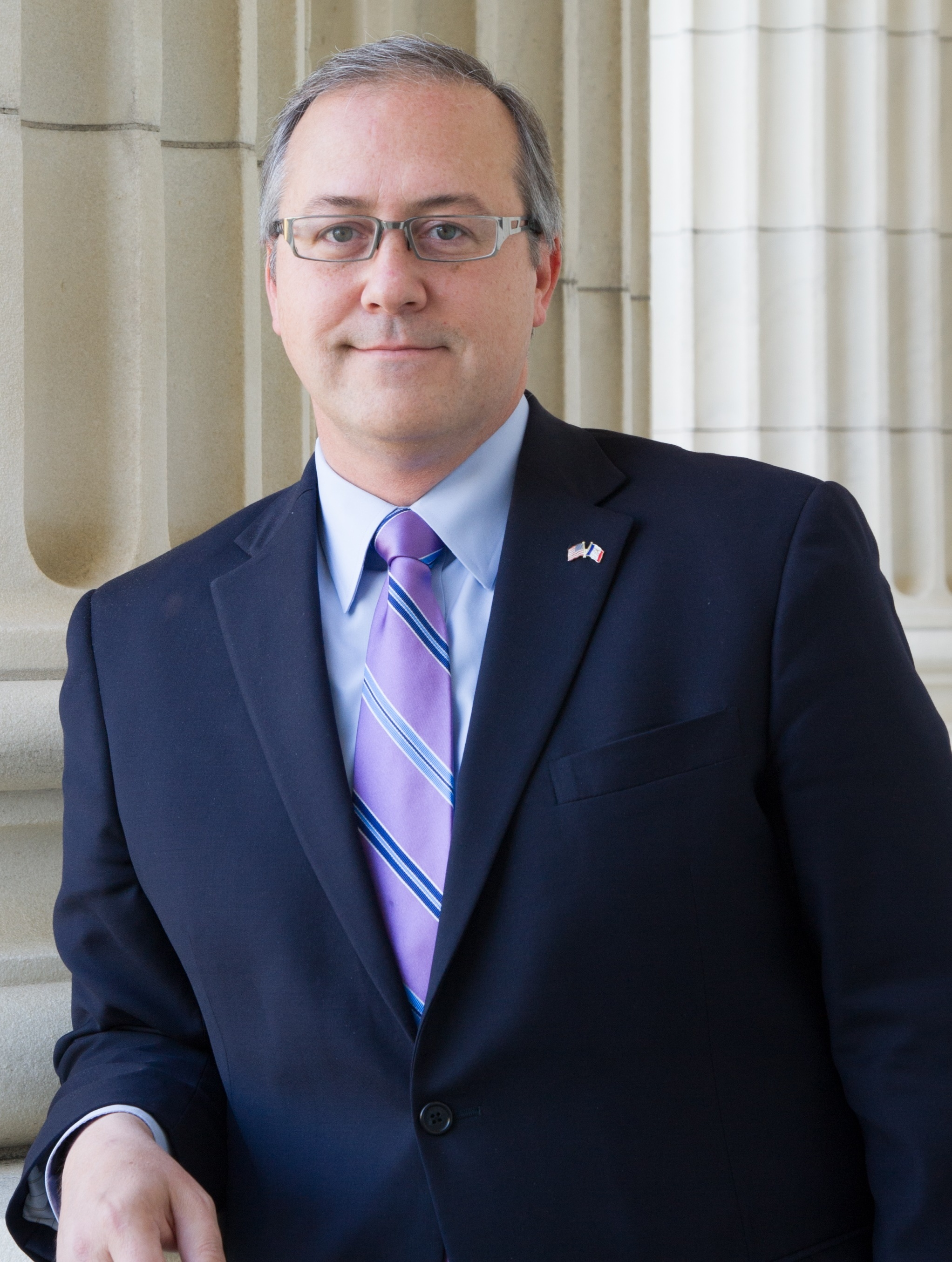 David Young official photo, 114th Congress